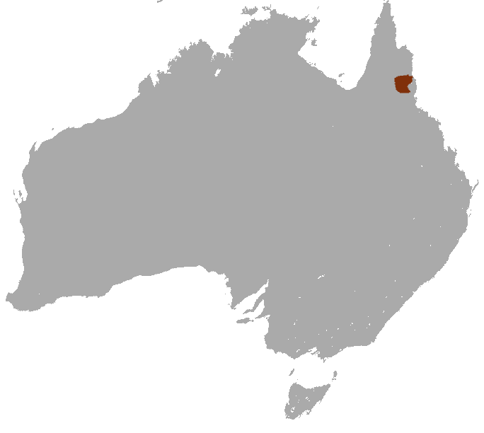 Mareeba Rock Wallaby (Petrogale mareeba) range